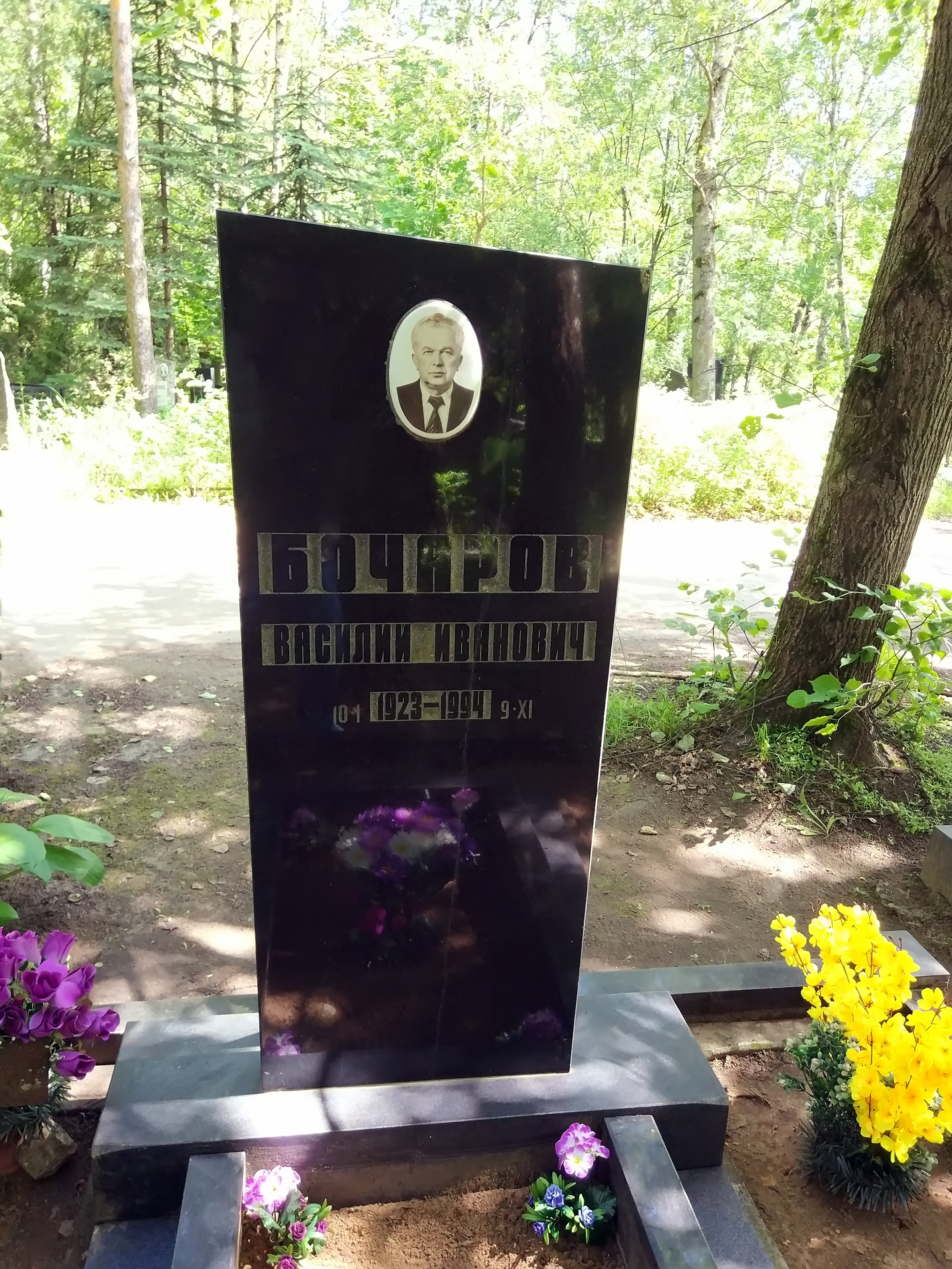 Vasily Bocharov grave at the Ostrovtsy Cemetery (Zhukovsky)